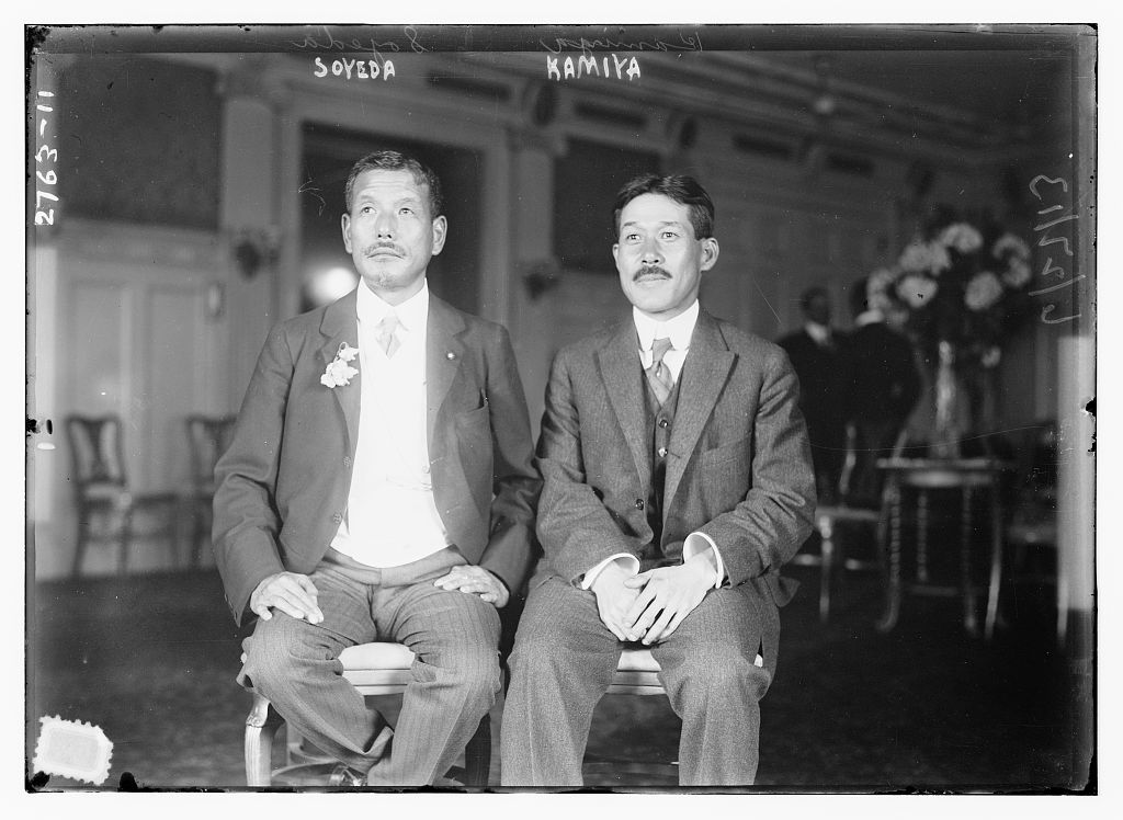 Bain News Service,, publisher. Juichi Soyeda添田寿一, Kamiya神谷忠雄 in 1913 1913 1 negative : glass ; 5 x 7 in. or smaller. Notes: Title from unverified data provided by the Bain News Service on the negatives or caption cards. Forms part of: George Grantham Bain Collection (Library of Congress). Format: Glass negatives. Repository: Library of Congress, Prints and Photographs Division, Washington, D.C. 20540 USA, General information about the Bain Collection is available at Persistent URL: Call Number: LC-B2- 2763-11